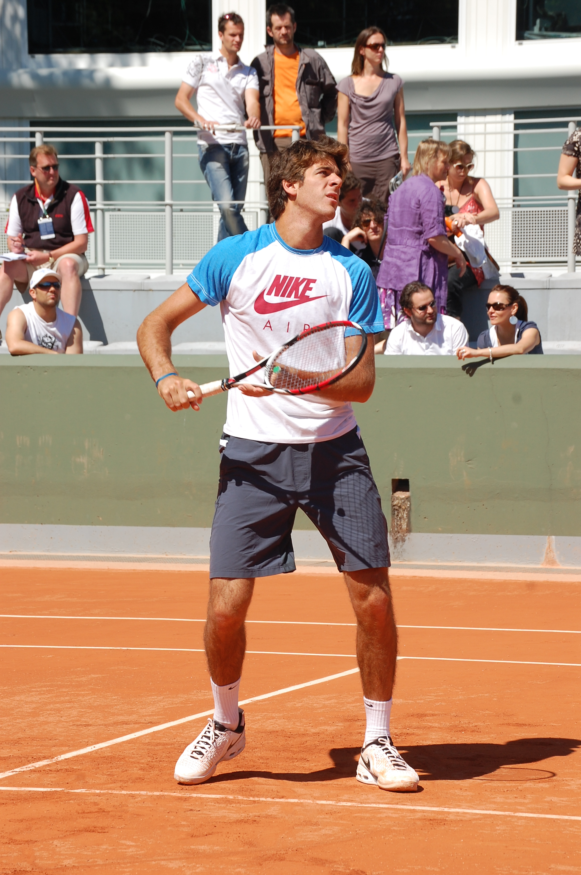 Juan Martin del Potro training in Roland Garros, 2009 French Open